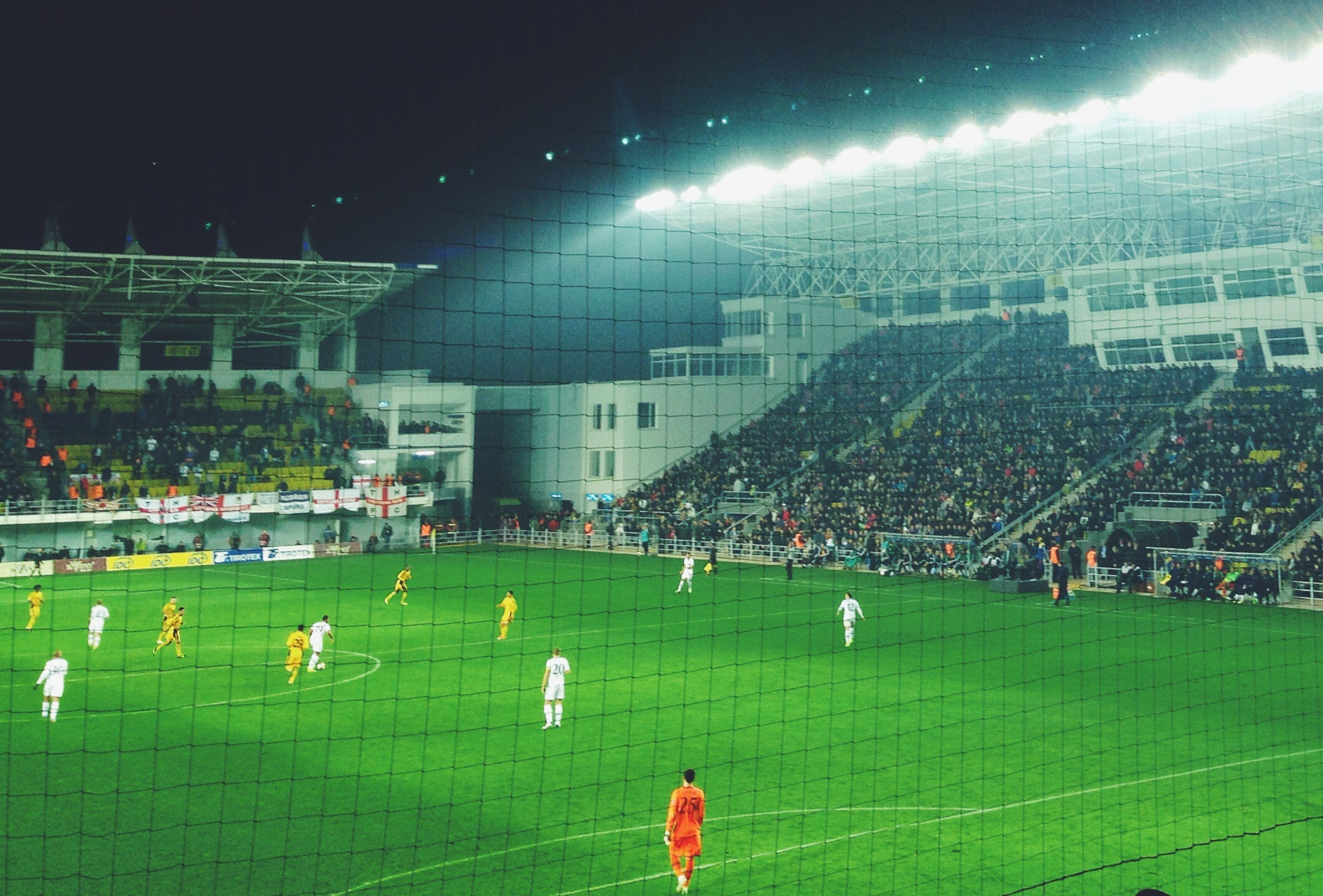 2013–14 Europa League group match - Sheriff Tiraspol v Tottenham Hotspur